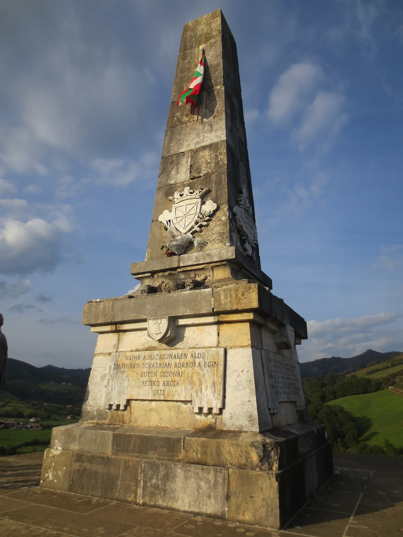 Memorial to the defenders of Amaiur at the site of the fortress during the Spanish conquest of Navarre (1522)